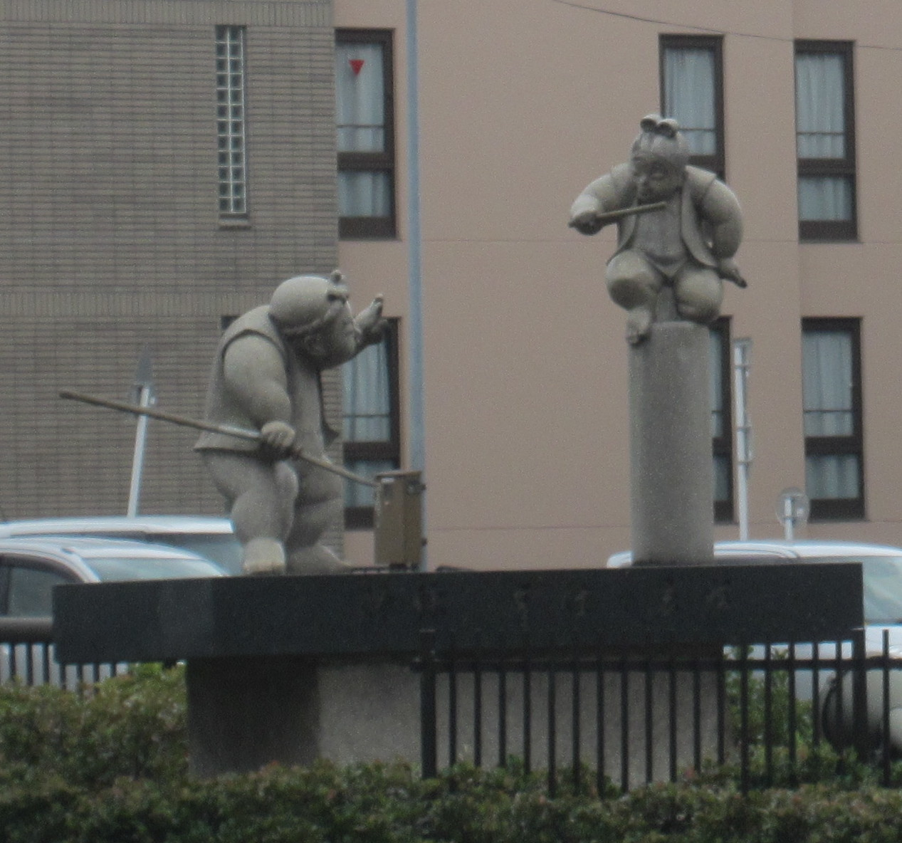 Kyoto, Japan (2019)